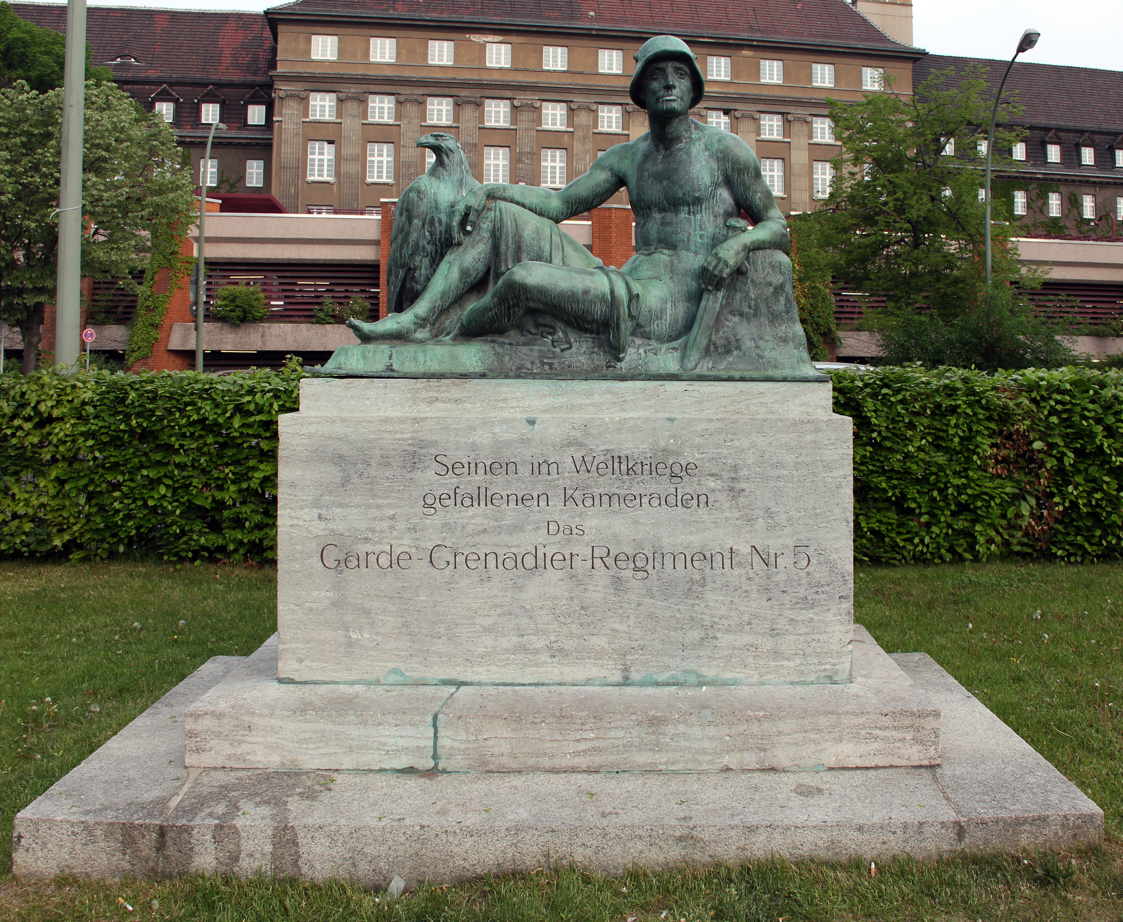 Statue, "Garde-Grenadier-Regiment Nr. 5" by August Schreitmüller, 1922, Stabholzgarten, Berlin-Spandau, Germany